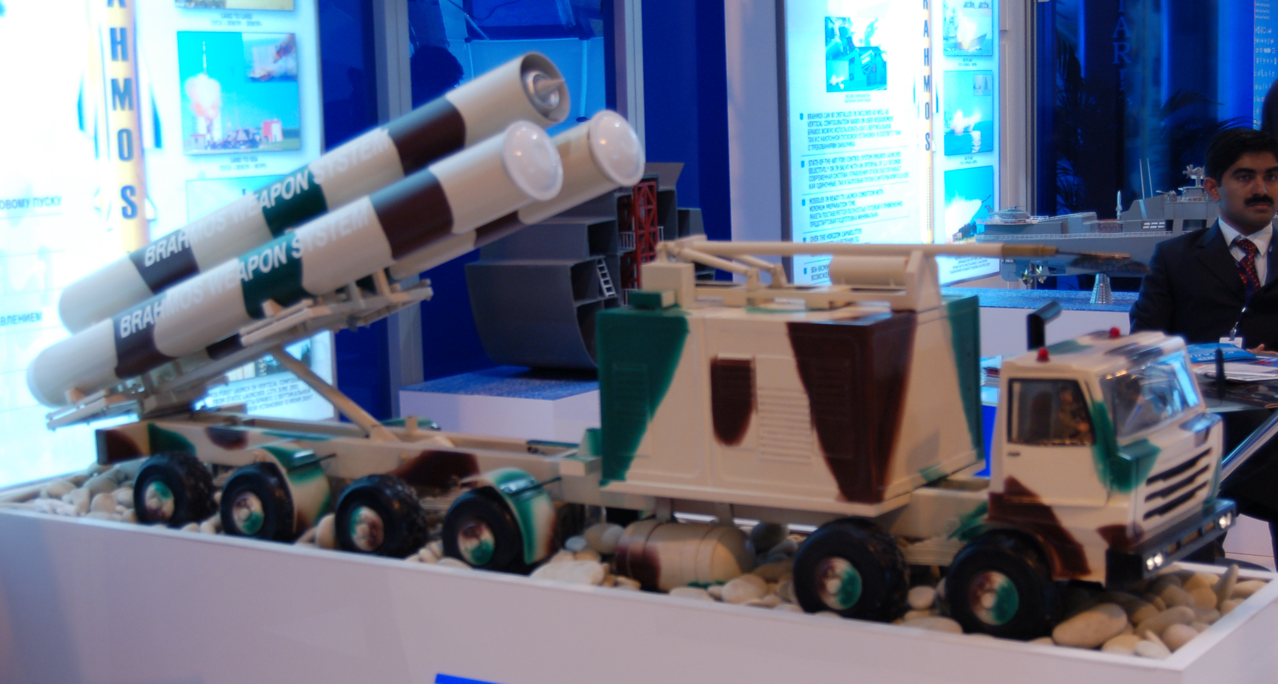 BrahMos missile autonomous ground launcher maquette. MAKS-2009